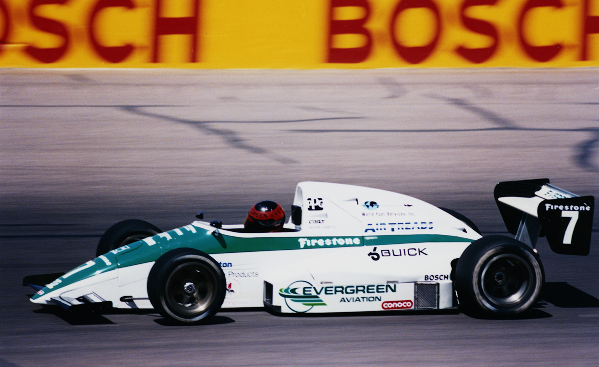 Indy Lights driver Mark Smith winning pole position at Phoenix International Raceway